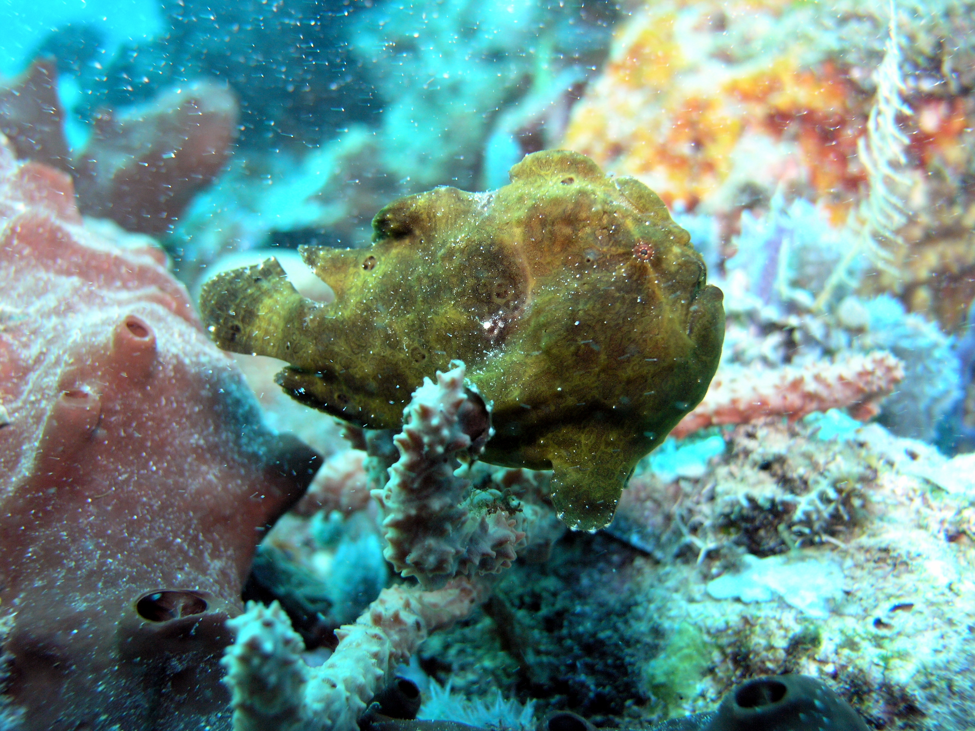 Image of painted frogfish. Antennarius pictus. Taken off Bunaken Island, North Sulawesi, Indonesia.